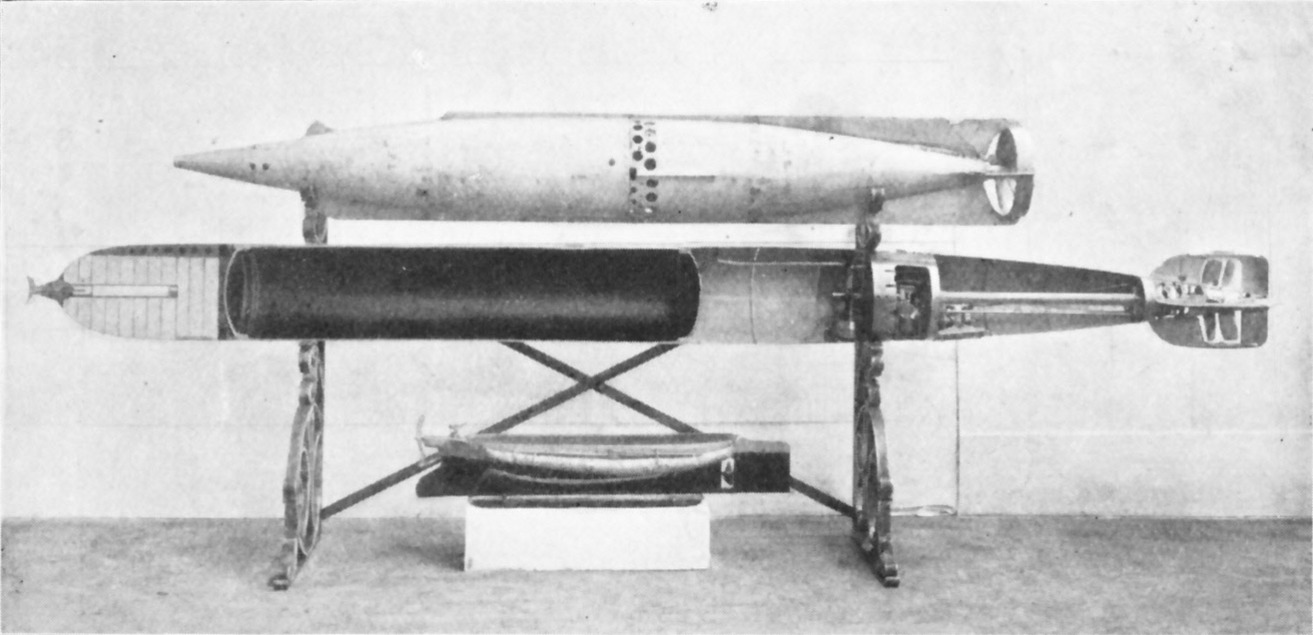 This photo, probably taken at Fiume around 1895, shows three stages of the Whitehead torpedo. At the bottom, Giovanni Luppi's Küstenbrander, which was the inspiration for Robert Whitehead's work. At the top, the 1868-1870 model with its characteristic fins. In the middle an 1890's model, cut out to show the interior, but not the secret parts with the hydrostat.